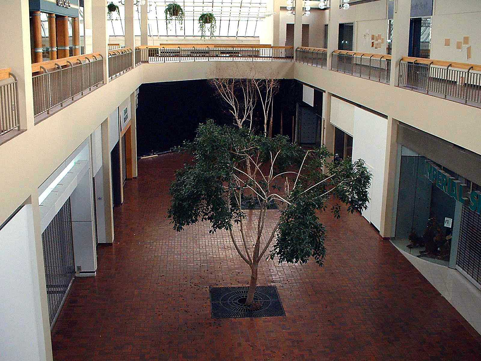 Picture of Salem Mall's JCPenney wing in May of 2003. Author: Dave Lansing (I took the picture myself)